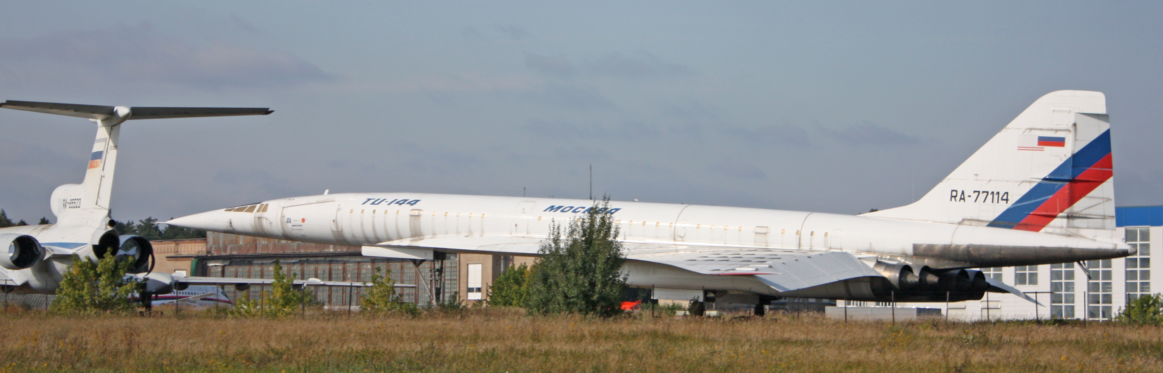 Tupolev Tu-144LL, a board number RA-77114 (near The international aerospace salon MAKS-2009)